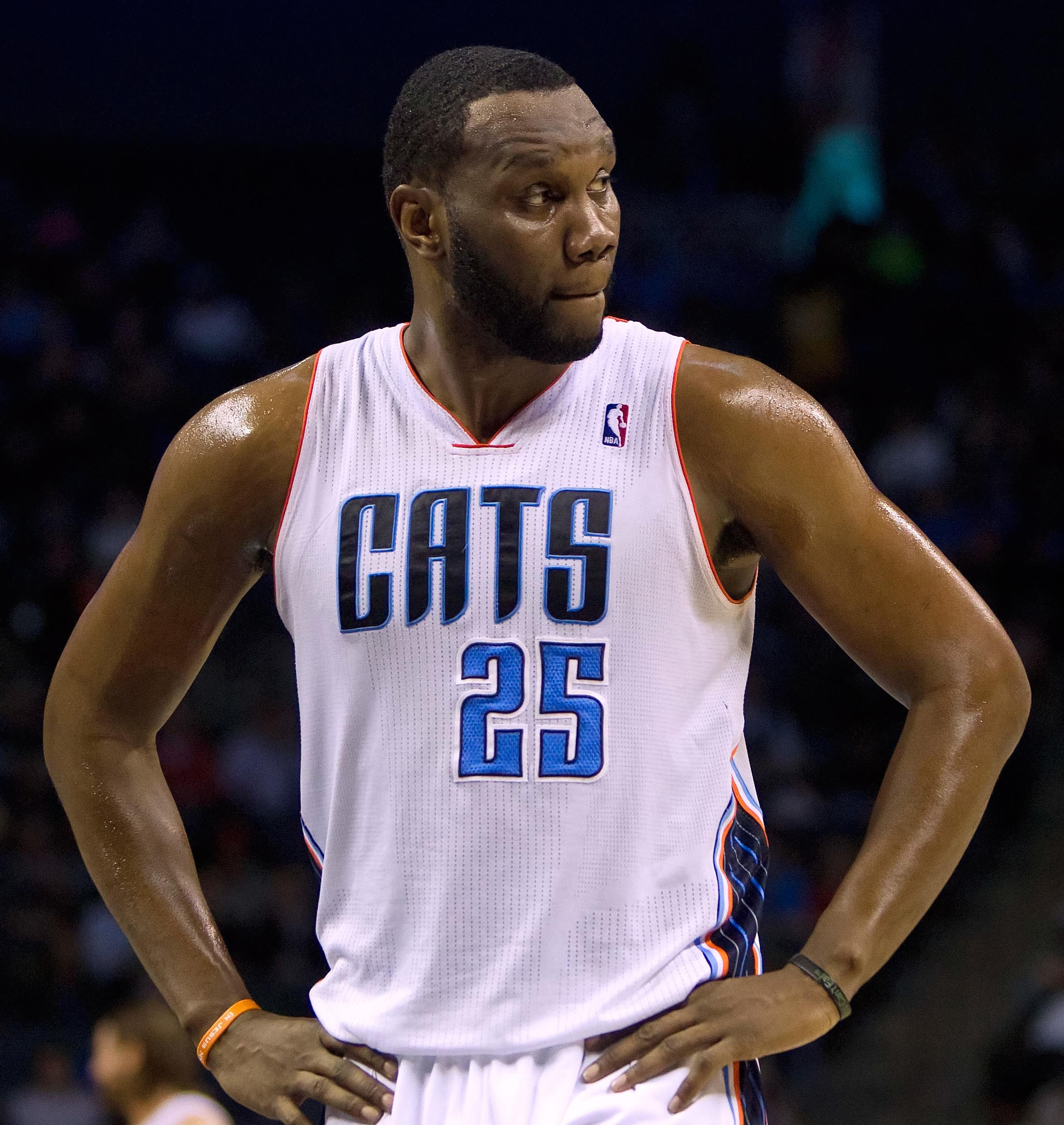 Mar 5, 2014; Charlotte, NC, USA; Charlotte Bobcats center Al Jefferson (25) reacts after the play during the second half against the Indiana Pacers at Time Warner Cable Arena. Bobcats won 109-87. Mandatory Credit: Joshua S. Kelly-USA TODAY Sports